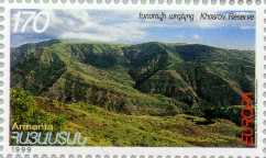 Stamp of Armenia